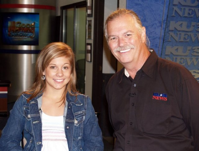 Olympic Gymnast Shawn Johnson With Phil Konstantin